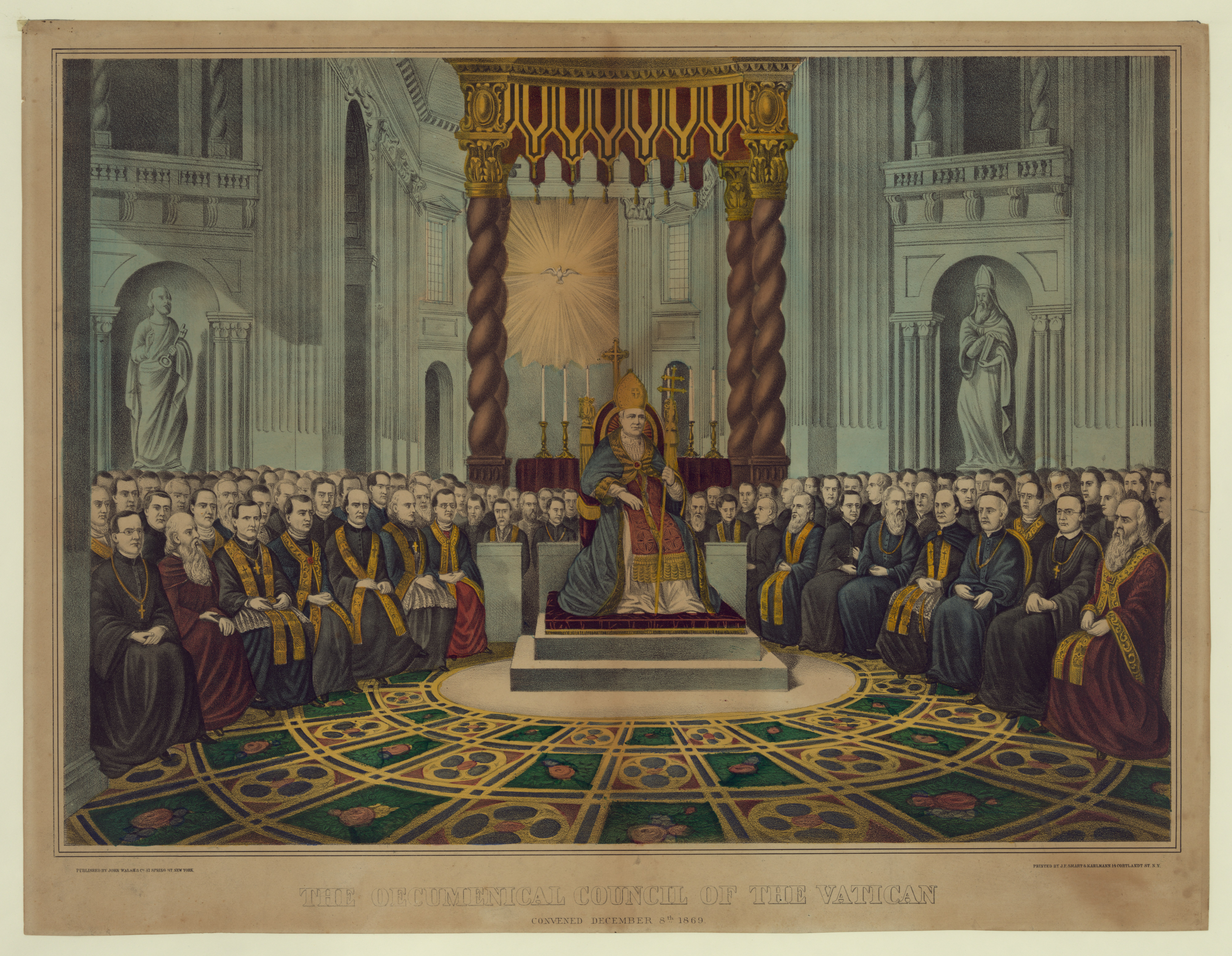 Title: The oecumenical council of the Vatican, convened December 8th 1869 Abstract/medium: 1 print : lithograph, hand-colored.